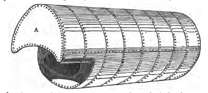 Butterley boiler, an early form of firetube boiler